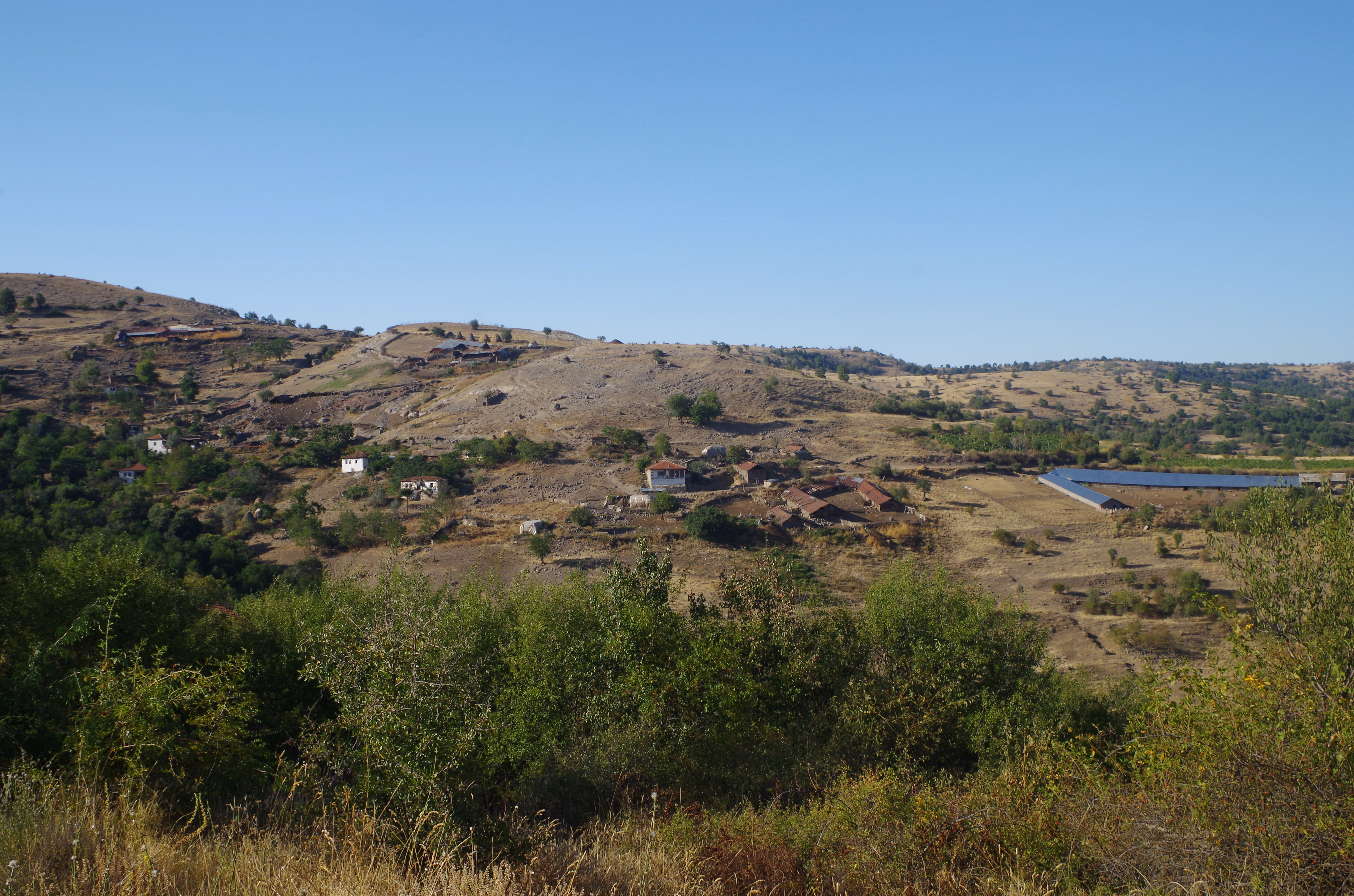 Panoramic view of the village of Stragovo